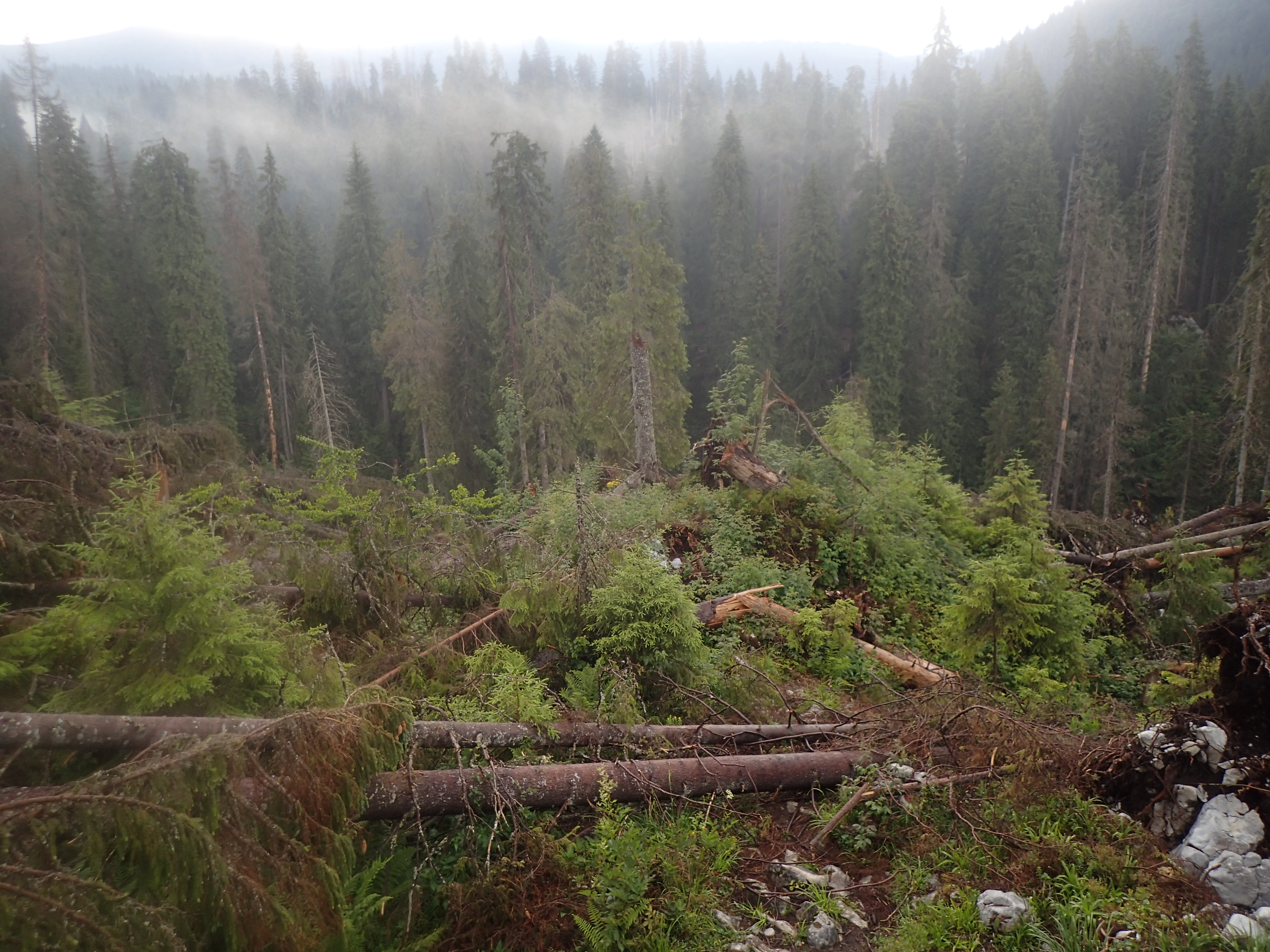 Devastated forest over the Cetatile Radesei cave (Romania)